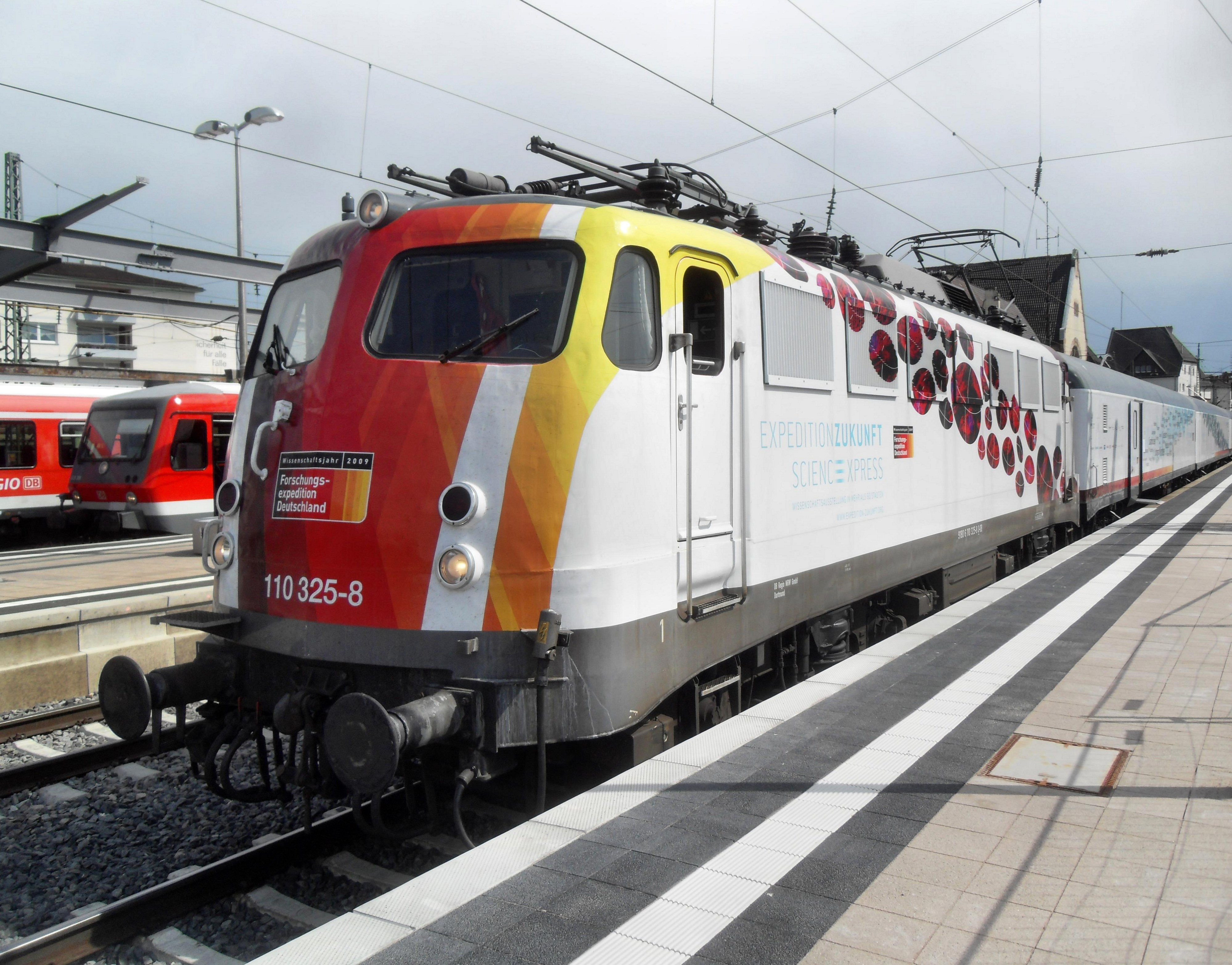 110 series from DB in the Worms Hauptbahnhof in front of a "Science Express"